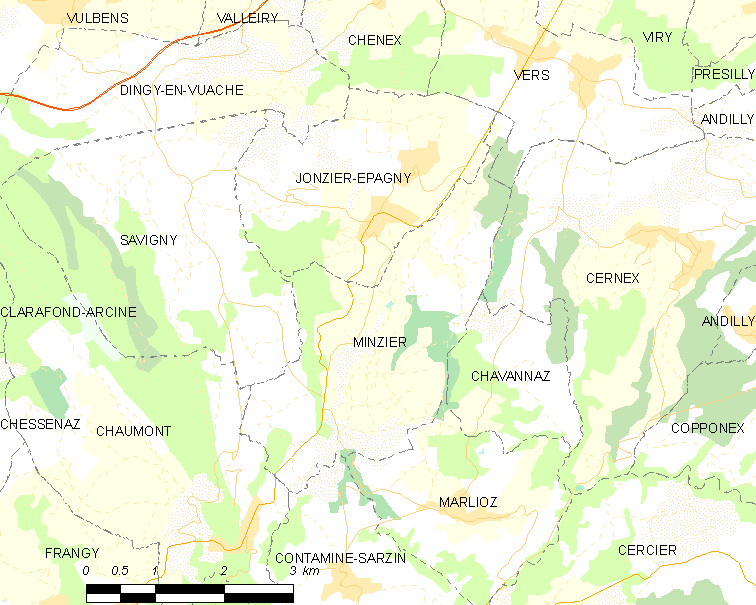 Map of French municipality Minzier